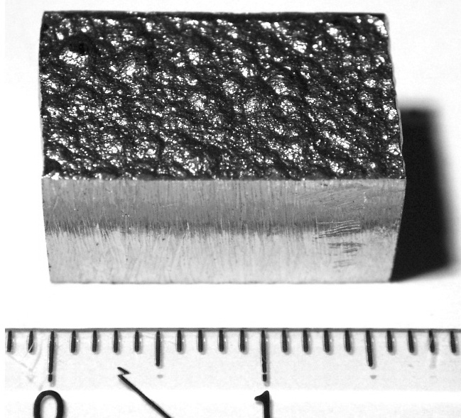 Cobalt, Piece of an electrolytically made plate, 99.9 % pure